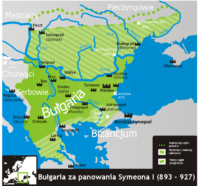 Map of the Bulgarian lands during the rule of Tsar Simeon I the Great (893-927)